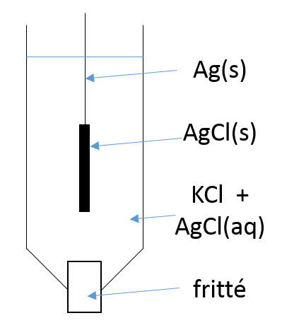 Silver chloride reference electrode